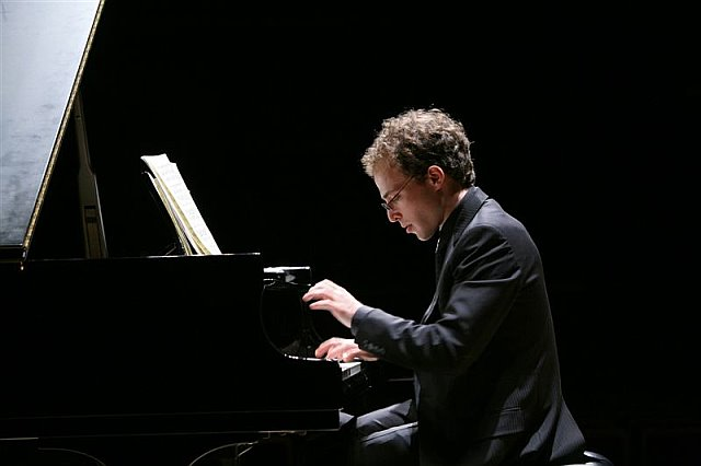 Orion Weiss Rehearsing for Chamber Music Concert